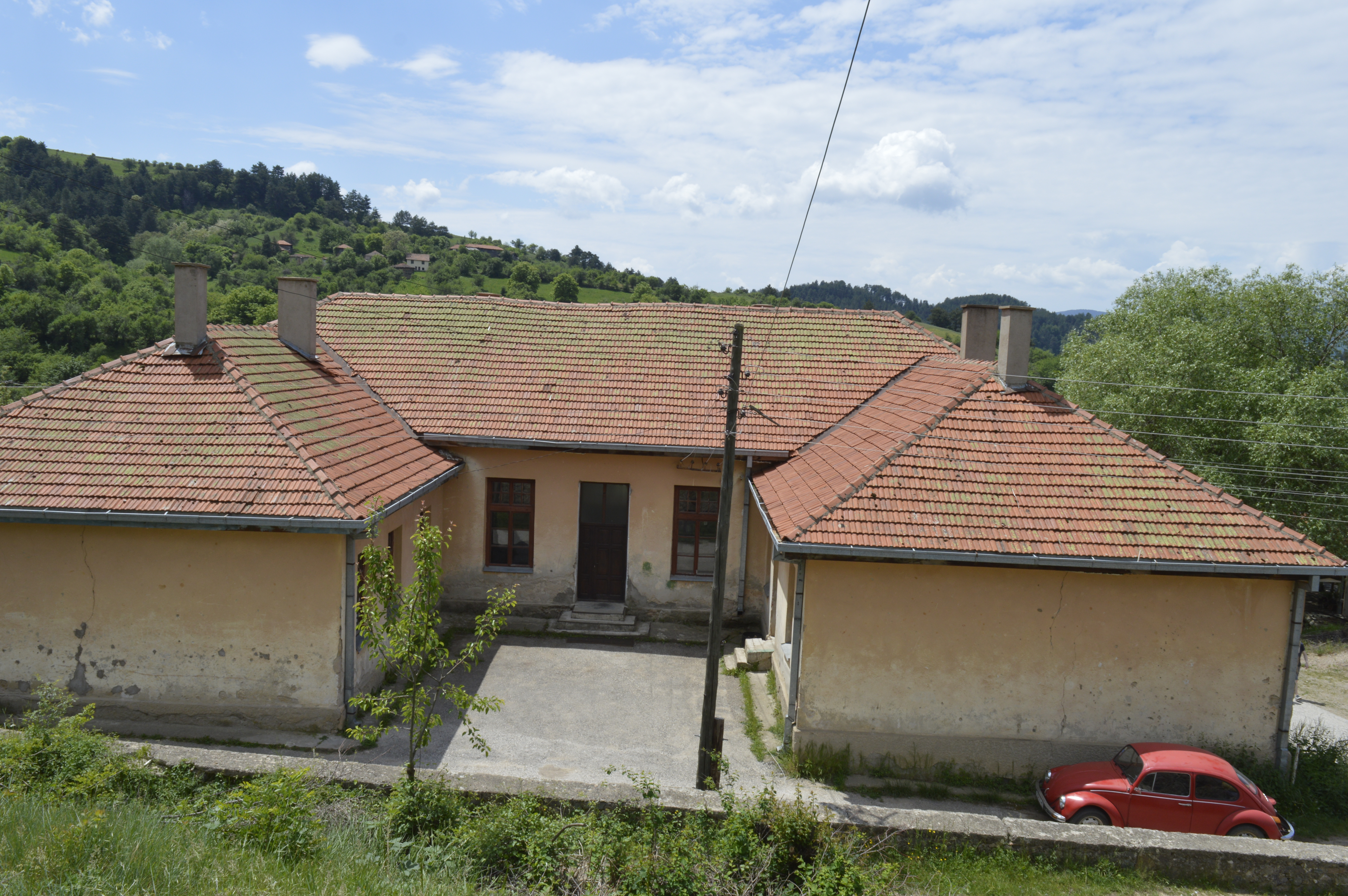 View of the primary school in the village Pančarevo